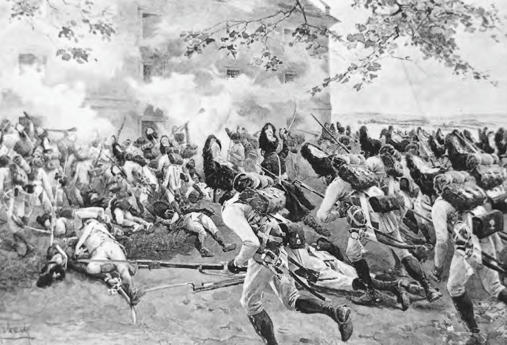 In ferocious fighting, Austrian grenadiers attempt to storm the fortified granary in the village of Essling during the campaign of 1809 on the Danube.